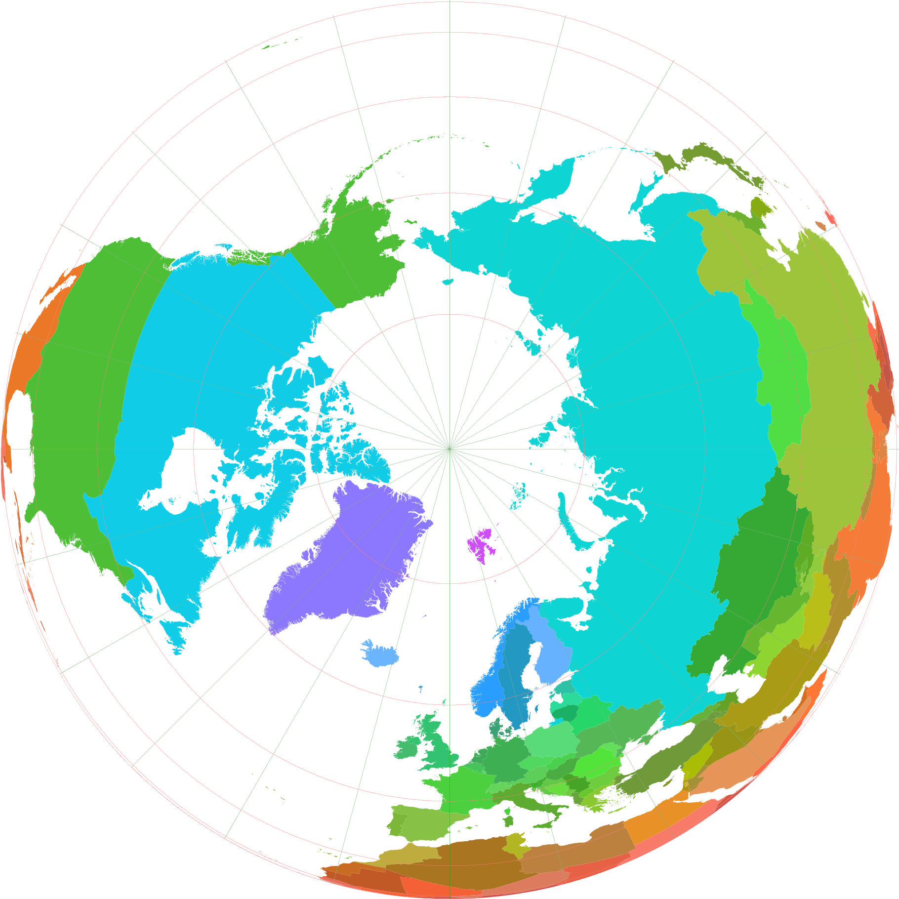 Political map of the surroundings of the North Pole based on a satellite projection from height 35786 kilometres.